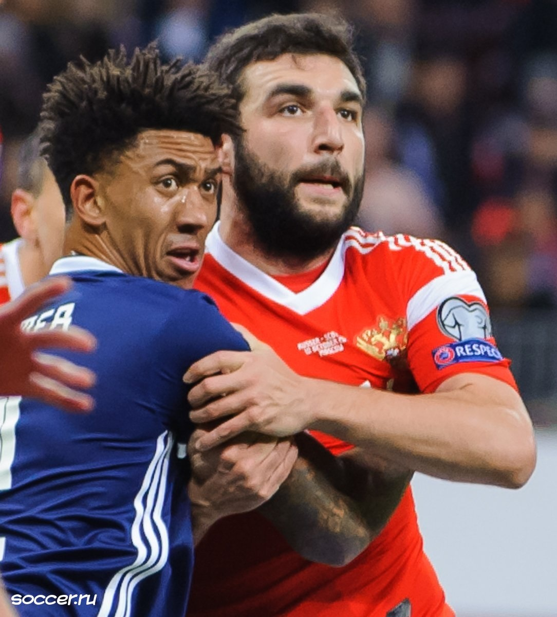 Liam Palmer and Georgi Dzhikiya on 10 October 2019, during the 2020 UEFA European Championship qualifying match between Russia and Scotland in Moscow.